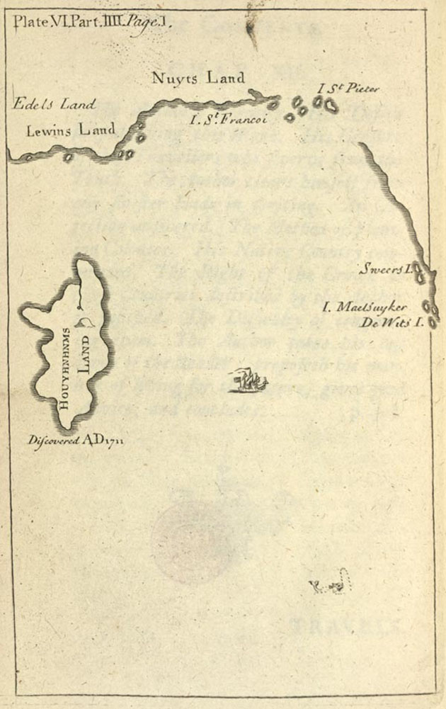 Map of Houyhnhnms land, for the 1726 edition of Jonathan Swift's Gulliver's Travels (or, Ttravels into several remote nations of the world)